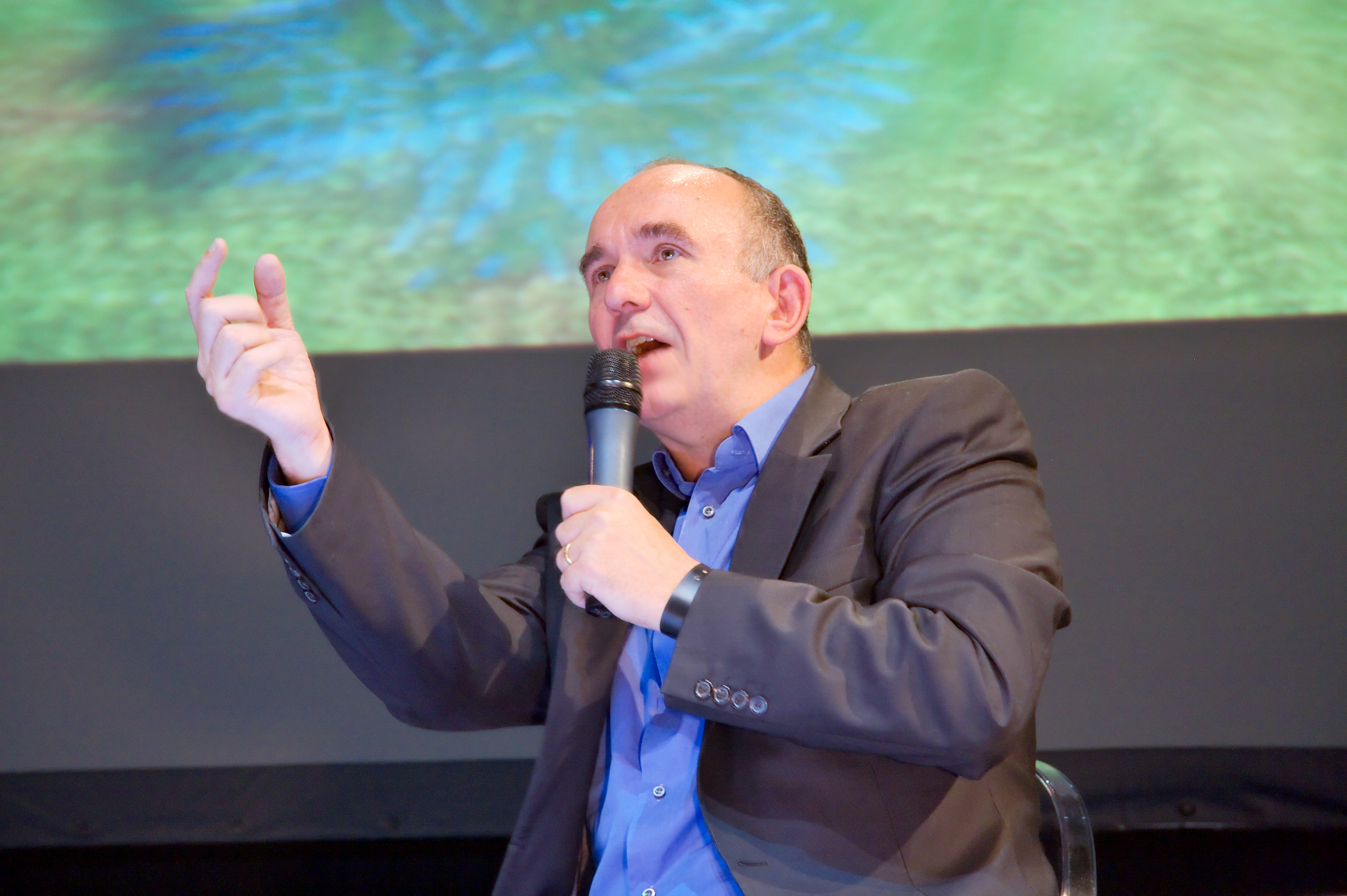 Presentation of Fable 2 with Peter Molyneux at Festival du jeu vidéo 2008 (Paris, France).